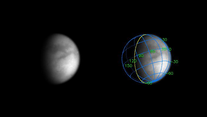 The Cassini spacecraft has beamed back a new, more detailed image of smog-enshrouded Titan. This view represents an improvement in resolution of nearly three times over the previous Cassini image release of Titan (see PIA05392). The superimposed coordinate system grid in the accompanying image at right illustrates the geographical regions of the moon that are illuminated and visible, as well as the orientation of Titan. North is up and rotated 25 degrees to the left. The yellow curve marks the position of the boundary between day and night on Titan. This image shows about one quarter of Titan's surface, from 0 to 70 degrees West longitude, and just barely overlaps part of the surface shown in the previous Titan image release. Most of the visible surface in this image has not yet been shown in any Cassini image. The image was obtained with the narrow angle camera on June 14, 2004, at a phase, or Sun-Titan-spacecraft, angle of 61 degrees and at a distance of 10.4 million kilometers (6.5 million miles) from Titan. The image scale is 62 kilometers (39 miles) per pixel. The image was magnified by a factor of two using a linear interpolation scheme. No further processing to remove the effects of the overlying atmosphere has been performed. The observed brightness variations are real, on scales of one hundred kilometers or less. The image was obtained in the near-infrared (centered at 938 nanometers) through a polarizing filter. The combination was designed to reduce the obscuration by atmospheric haze. The haze is more transparent at 938 nanometers than at shorter wavelengths, and light of 938 nanometers wavelength is not absorbed by methane gas in Titan's atmosphere. Light at this wavelength consequently samples the surface, and the polarizer blocks out light scattered mainly by the haze. This is similar to the way a polarizer, put on the front of a lens of a hand-held camera, makes distant objects more clear on Earth.